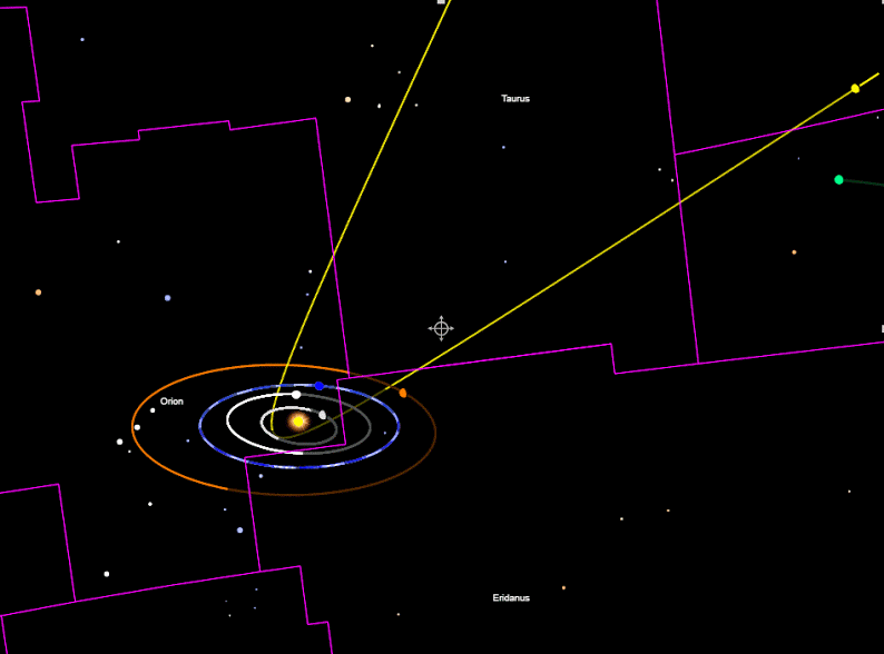 Hyperbolic asteroid 1I/ʻOumuamua (A/2017 U1; C/2017 U1) may be from beyond the Solar SystemGalego: Traxectoria hiperbólica do asteroide 1I/ʻOumuamua (A/2017 U1; C/2017 U1), ao seu paso polo Sistema Solar